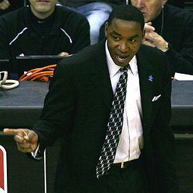 Isiah Thomas of the New York Knicks talking with a referee